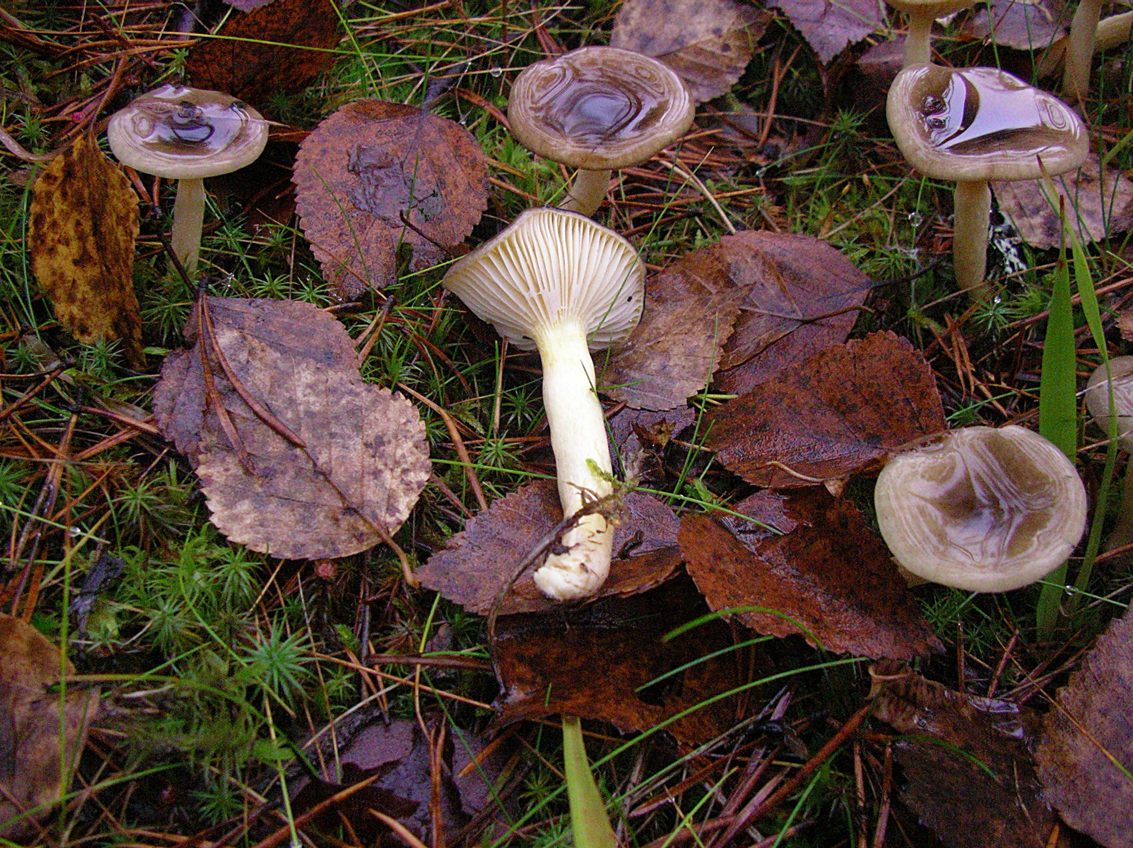 Hygrophorus hypothejus mushrooms, Finland, Jyväskylä MLK